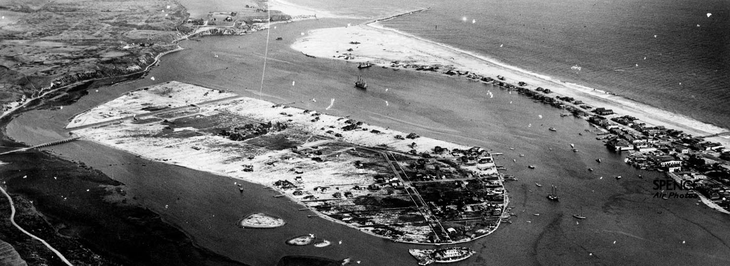 Aerial view of Balboa Island.